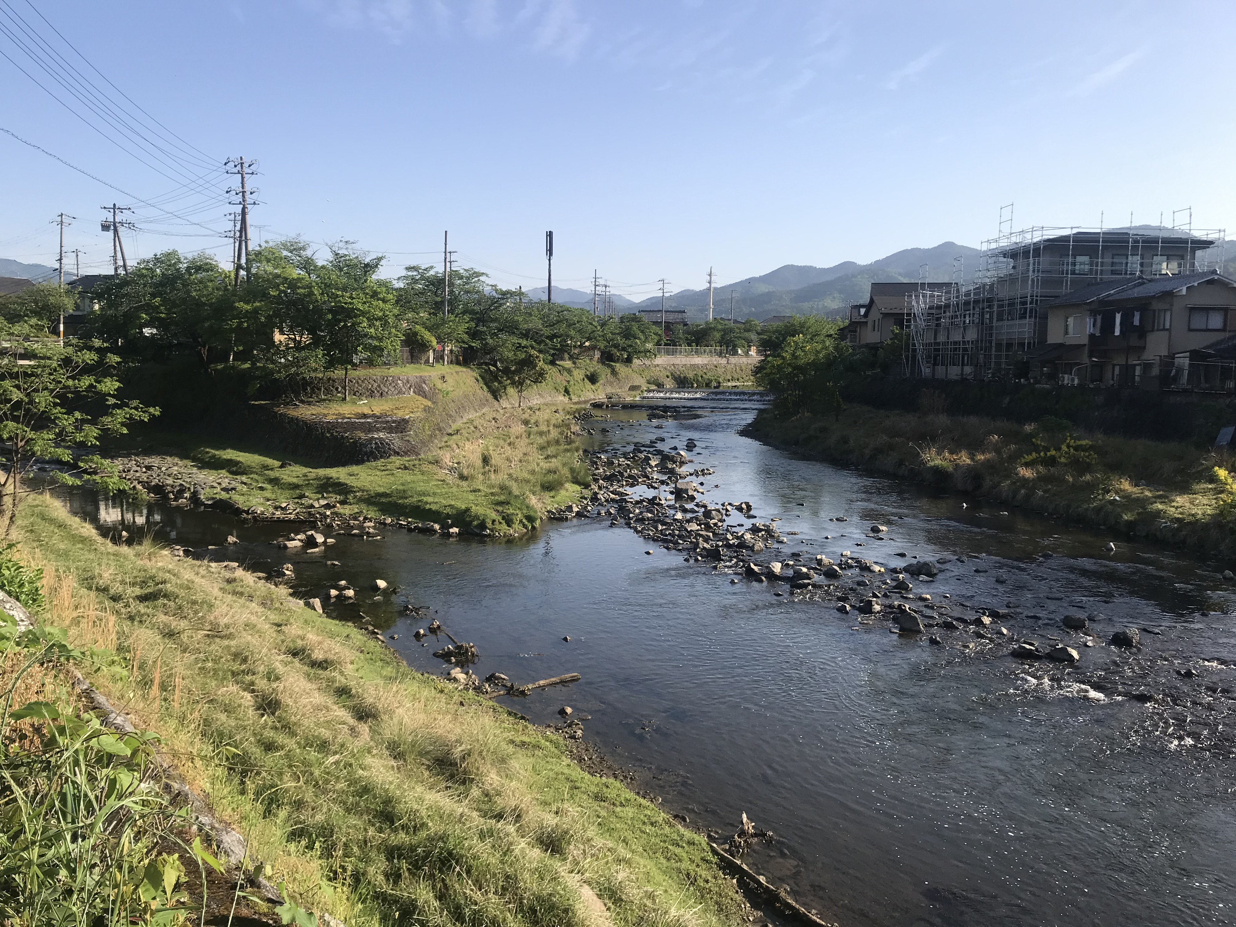 Confluence of Takano and Iwakura rivers